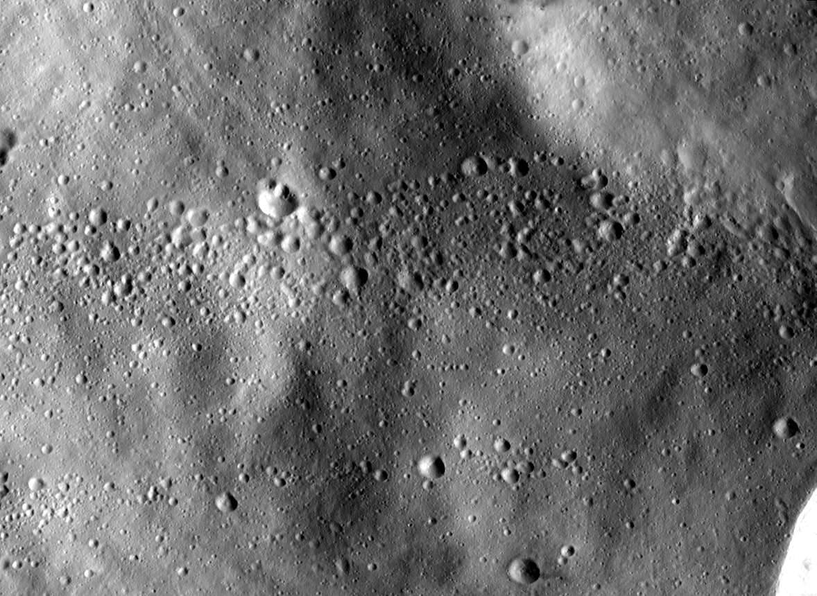 Part of a peculiar crater chain on Vesta (look Carsenty et al., 2013). Photo by Dawn. The photo is projected (north is up); in the lower right corner the edge of crater Pinaria (diam. 40 km) can be seen. Part of the image FC21B3017154_12022151823F1C with increased brightness. Resolution is 22 m/pixel, width of the photo is 26 km